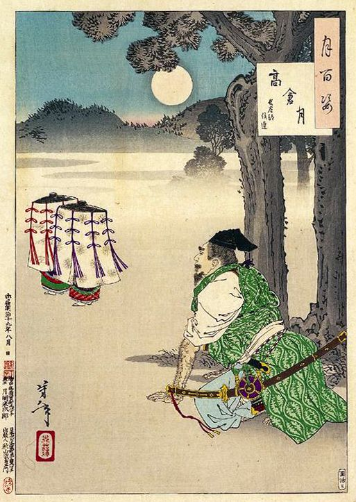 Takakura moon (Takakura no tsuki)